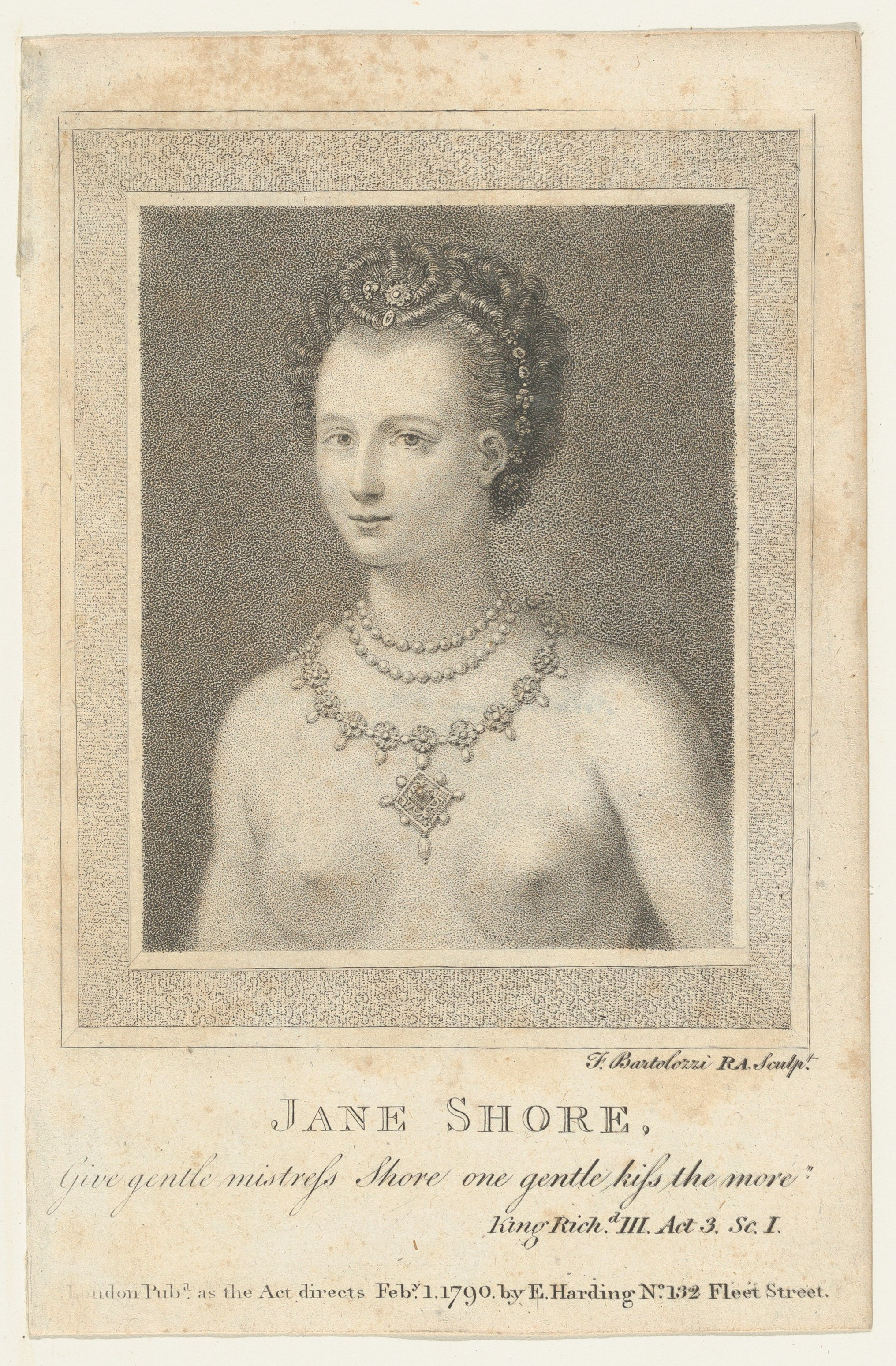 Print; Prints